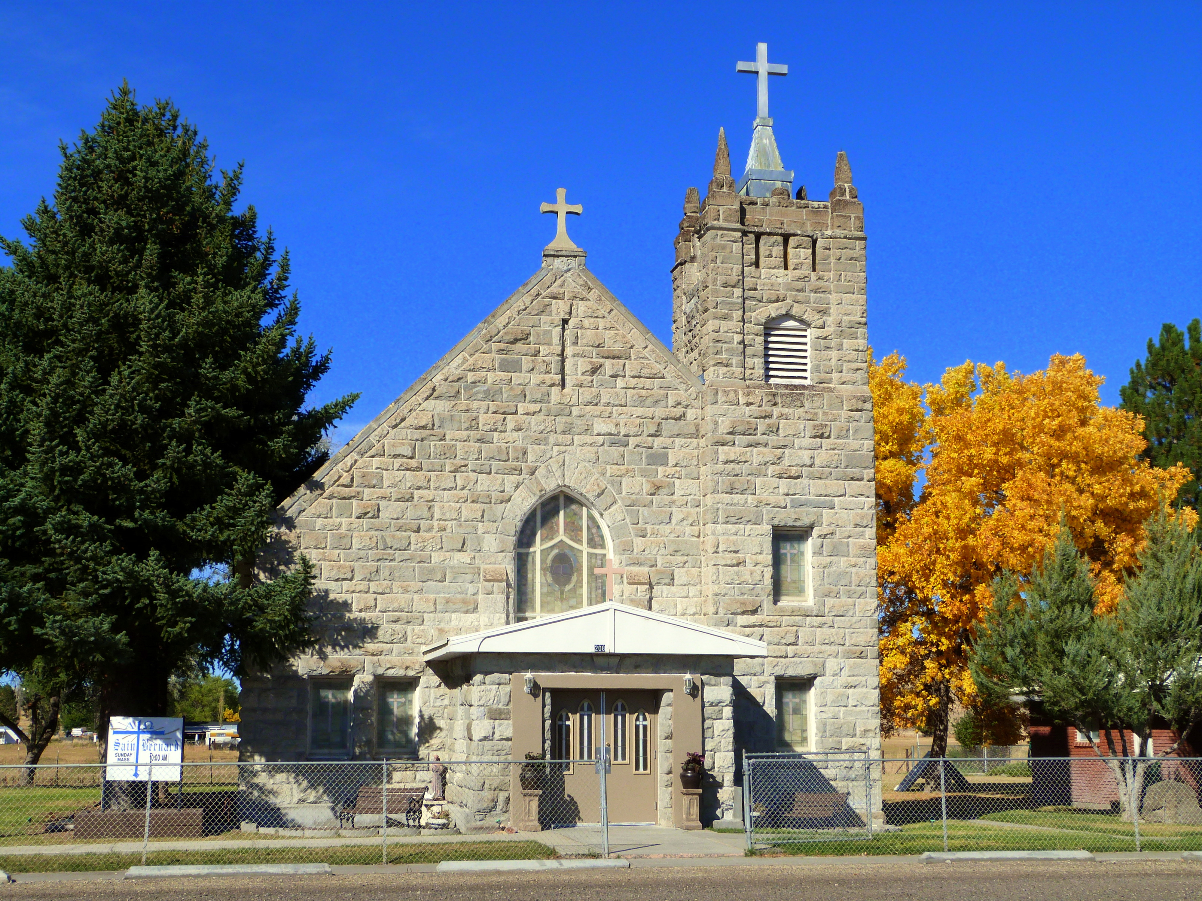 St. Bernard Roman Catholic Church in Jordan Valley, Oregon, United States.